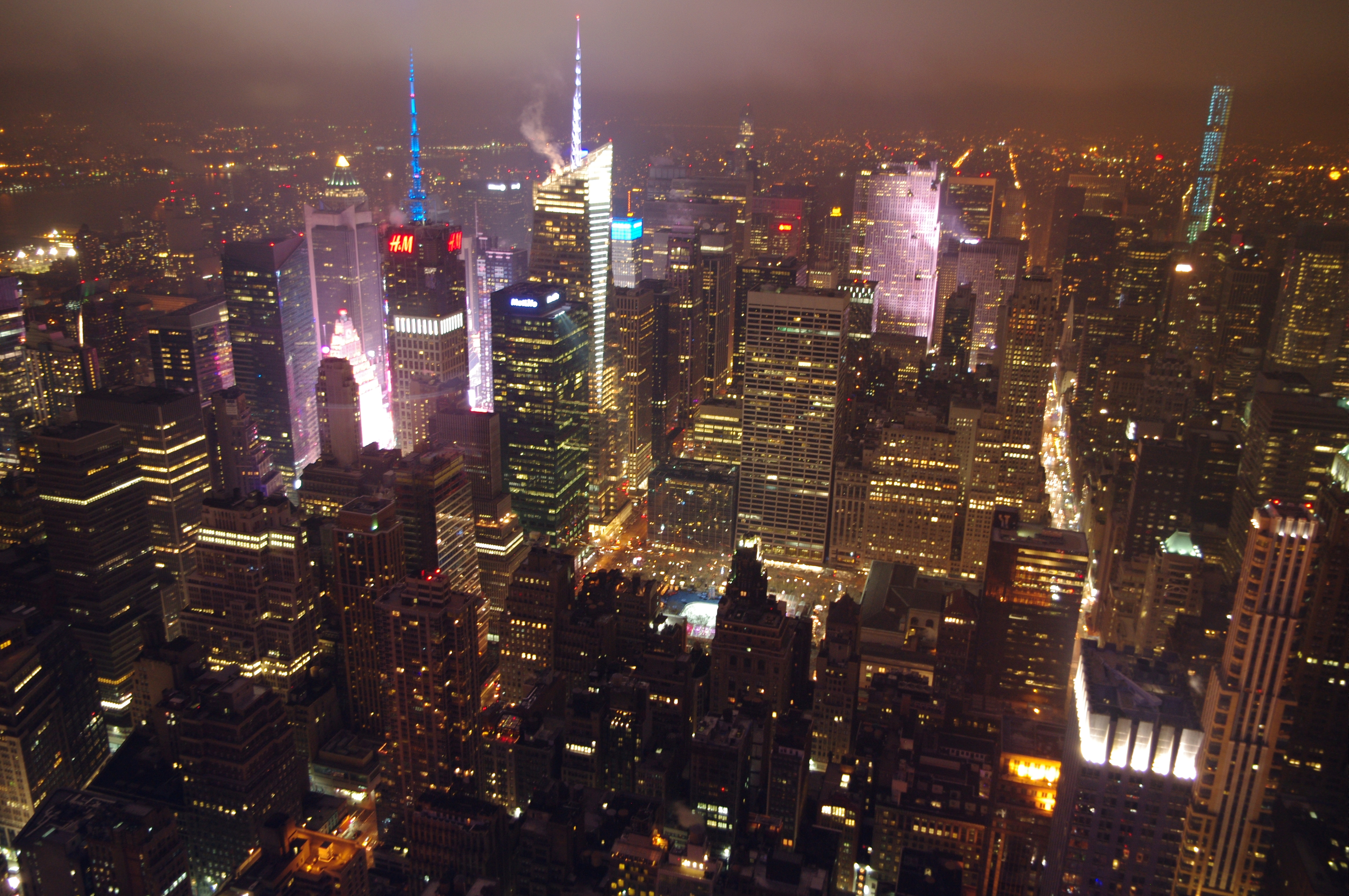 Midtown Manhattan seen from the Empire State Building